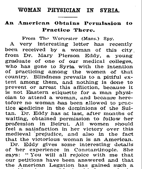 Article in the New York Times announcing Dr. Mary Pierson Eddy's appointment as the first female physician licensed by the Ottoman Empire.